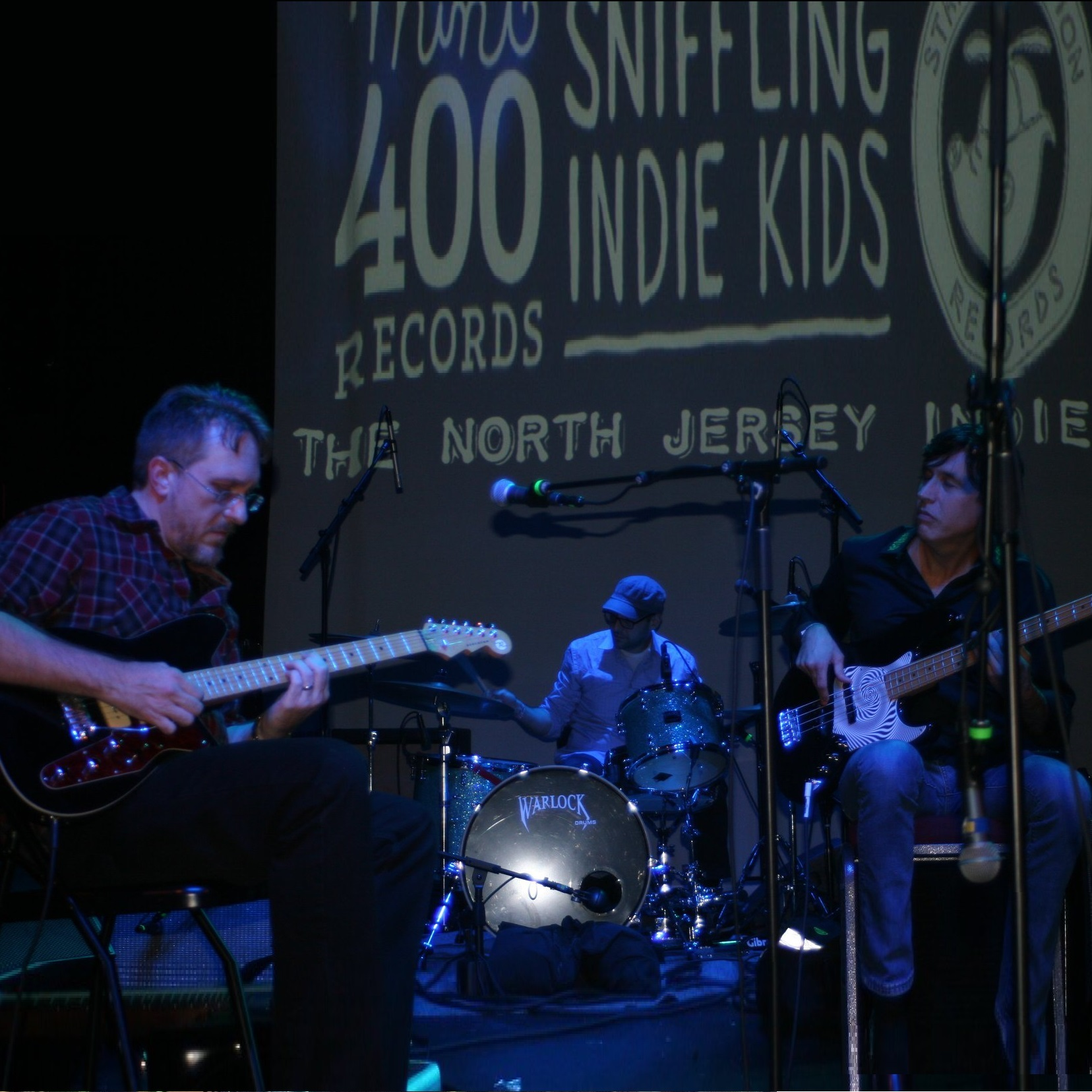 The Royal Arctic Institute at the 2018 North Jersey Indie Rock Festival.